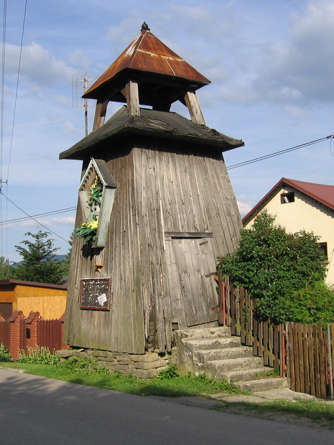 A wooden belfry in Szare (biult in 1784), gmina Milówka, Poland.